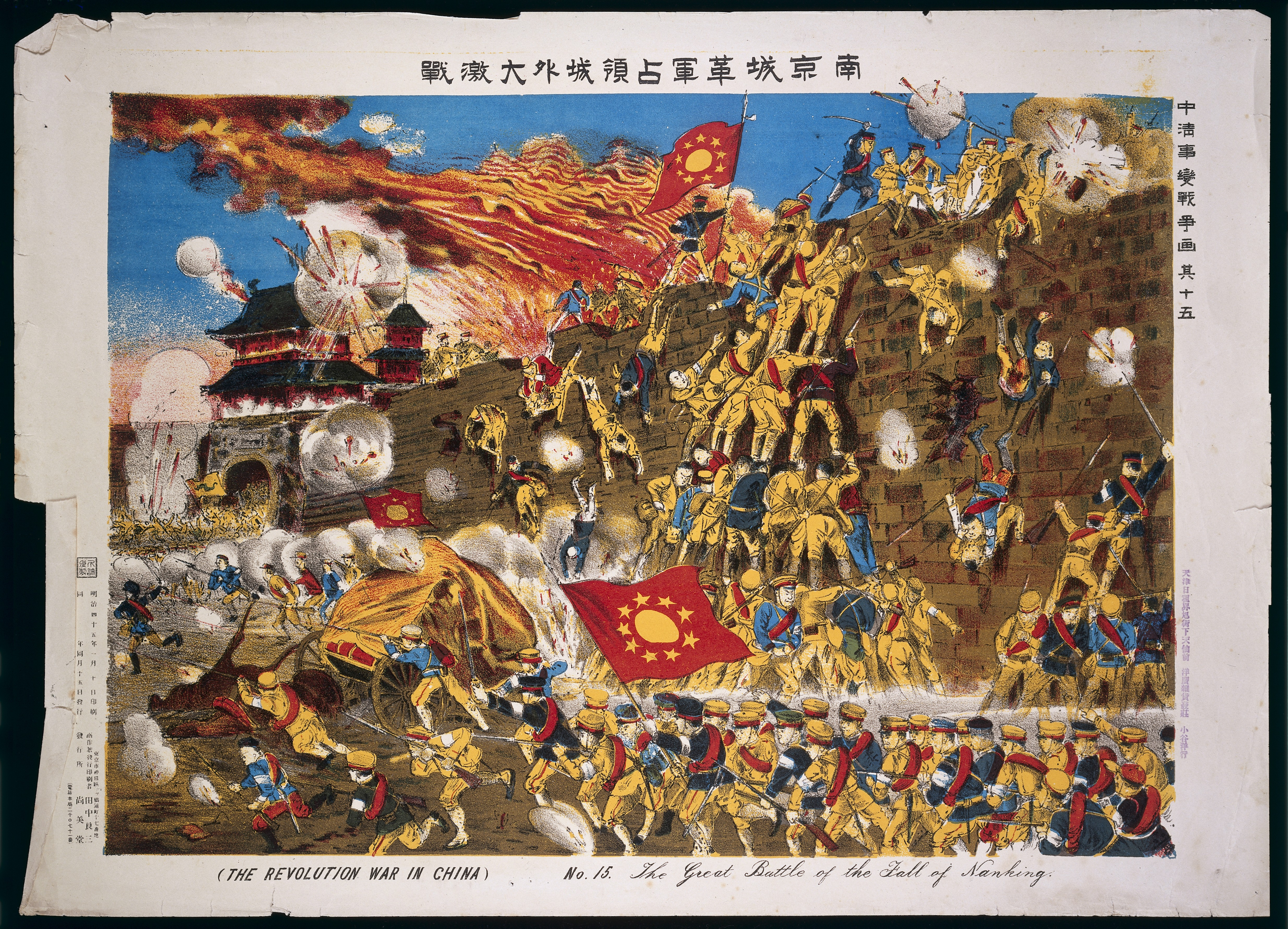 An episode in the revolutionary war in China, 1911: the battle at the fall of Nanking. Iconographic Collections Keywords: Revolution; Chinese Revolution; Military History; Fighting; China; Battles; T. Miyano; Xinhai Revolution; Manchu (Qing) Dynasty